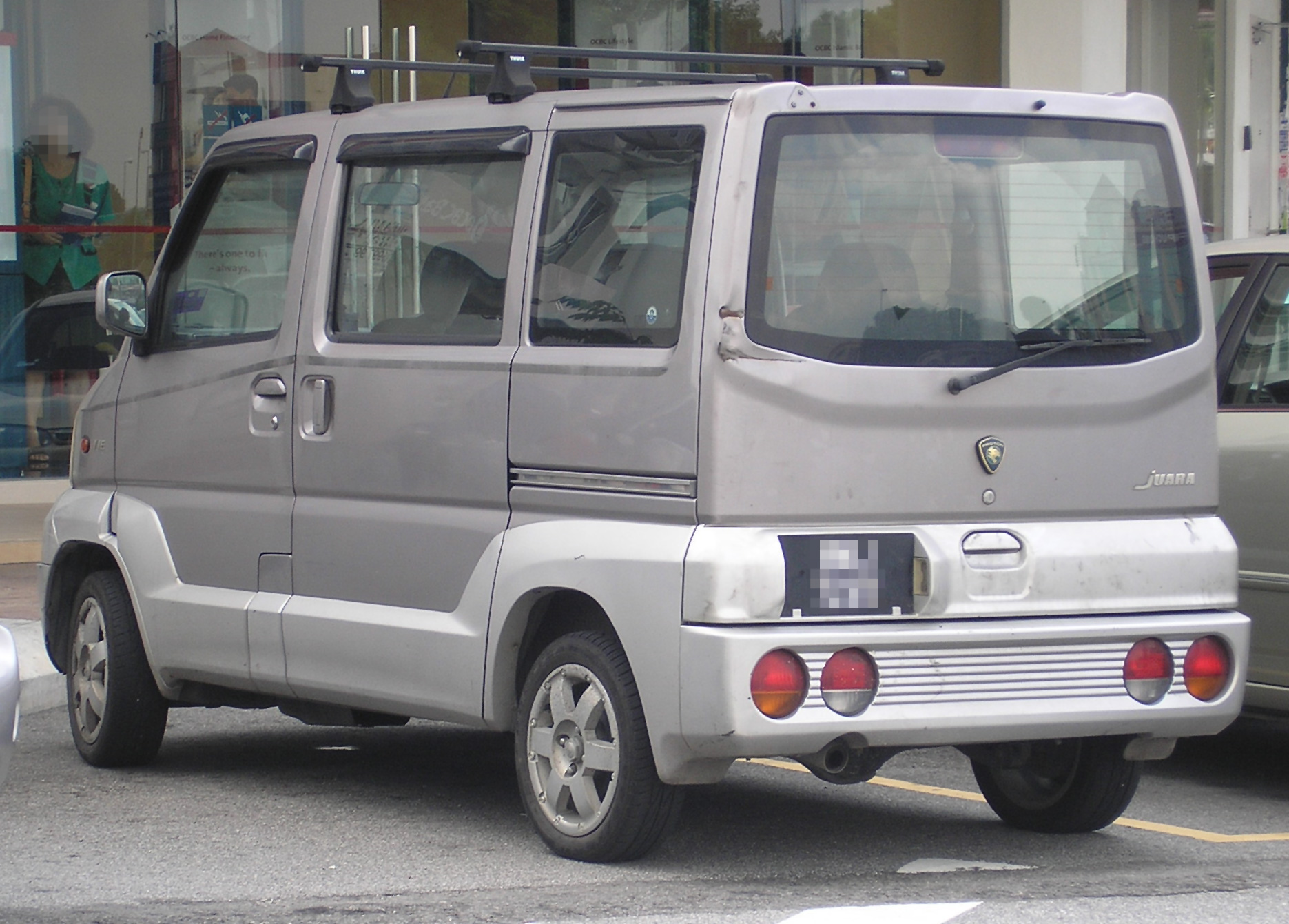 The rear of a Proton Juara in Serdang, Selangor, Malaysia.